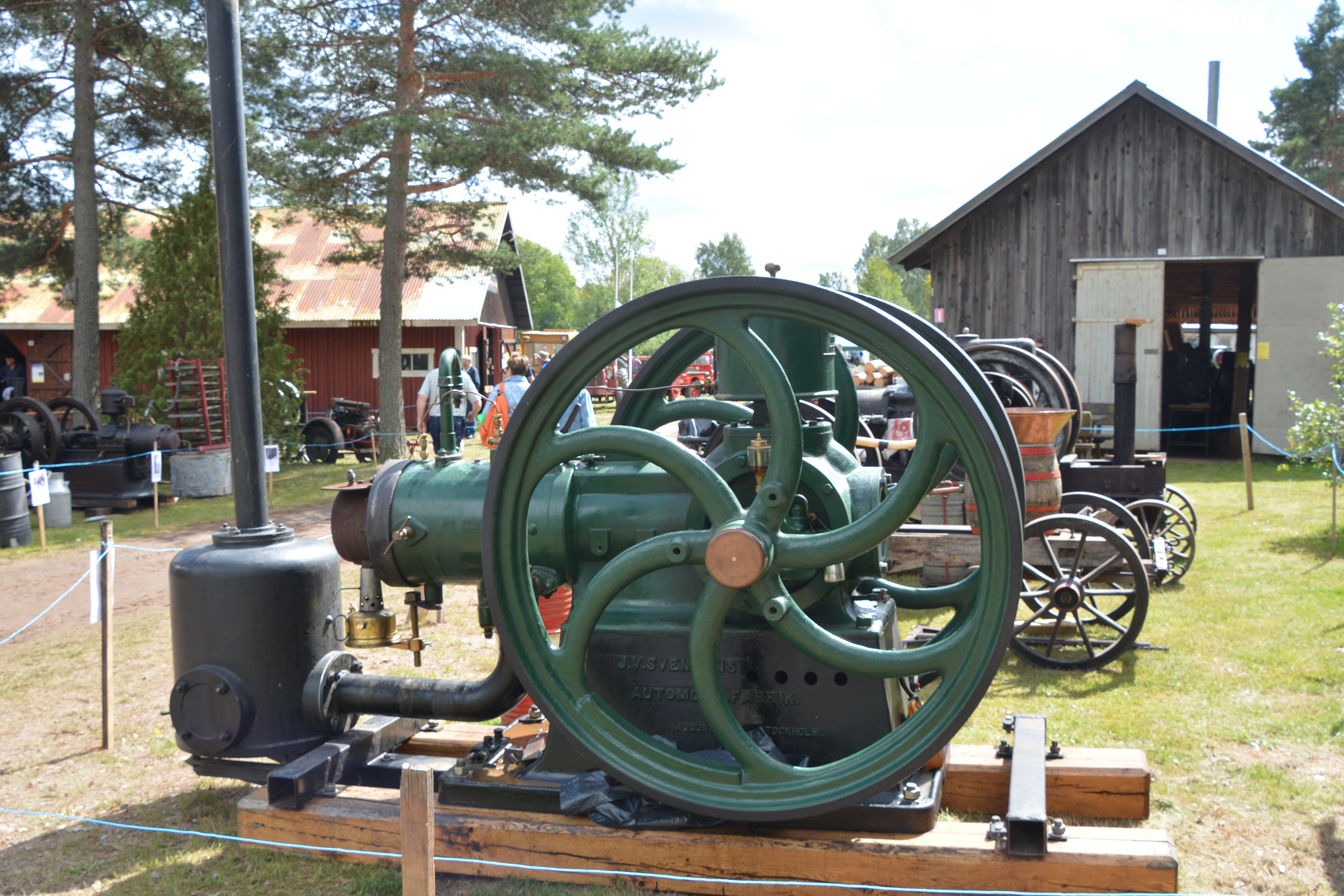 Tändkulemotorer på Motorns dag i Målilla-Gårdveda hembygdspark augusti 2017